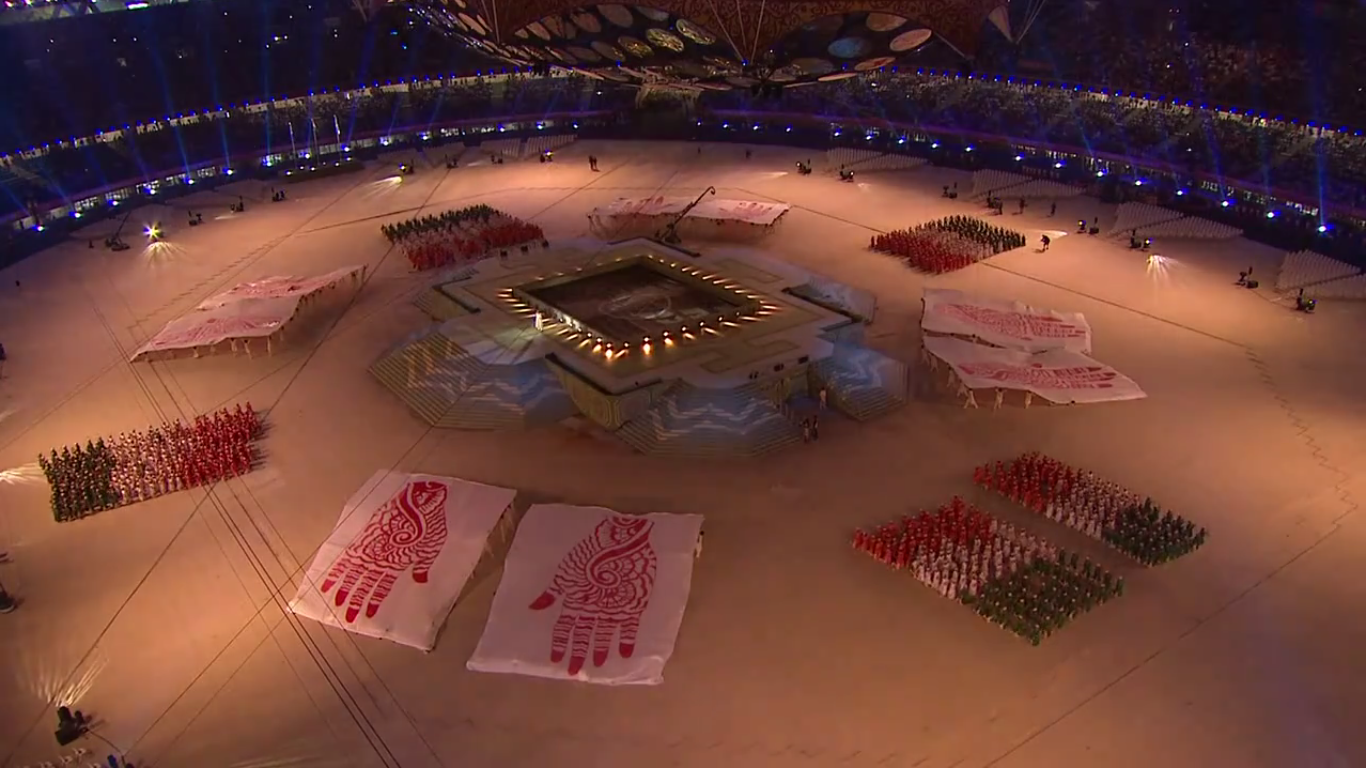 Commonwealth games Delhi 2010 opening ceremony swagatham mehndi.png